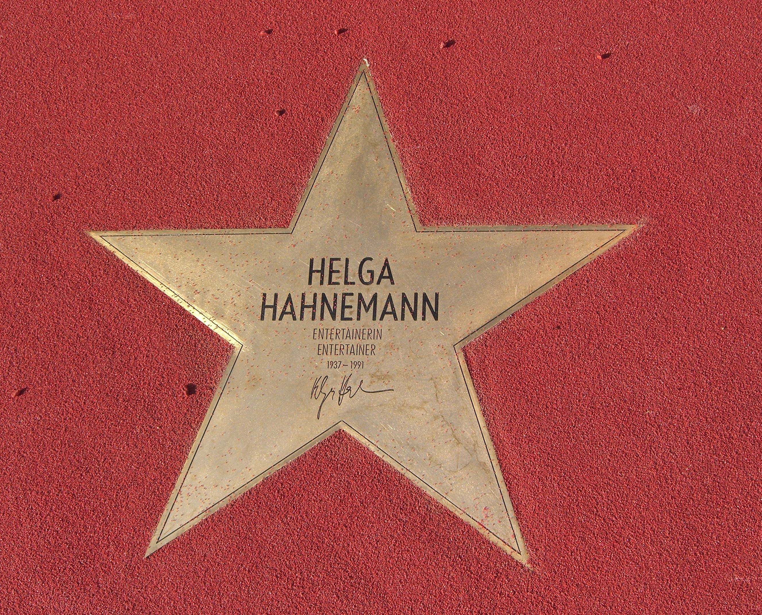 Star of Helga Hahnemann at "Boulevard der Stars" in Berlin.